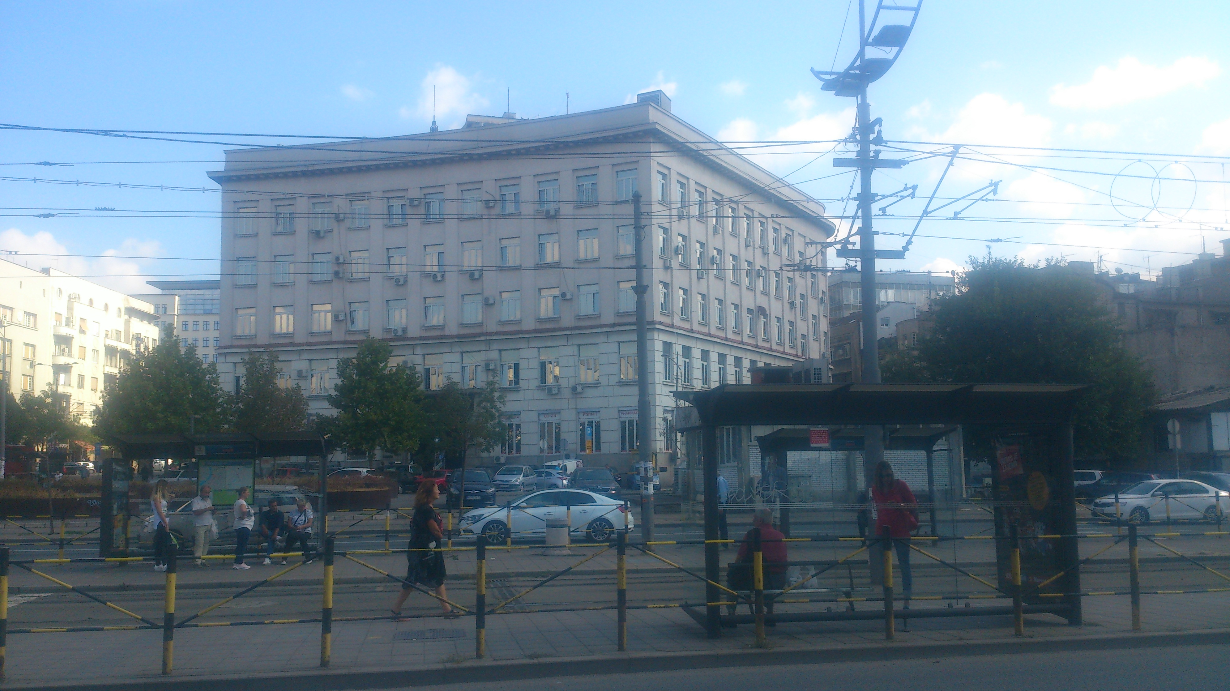 Special Hospital Saint Sava Belgrade